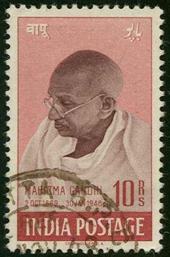 The stamp was issued in 1948 after the assassination of Mahatma Gandhi. It was issued in a set of four stamps. If erroneous stamps are ignored, this is the most costly post independence stamp. The mint stamp is quoted around 4,000 INR.